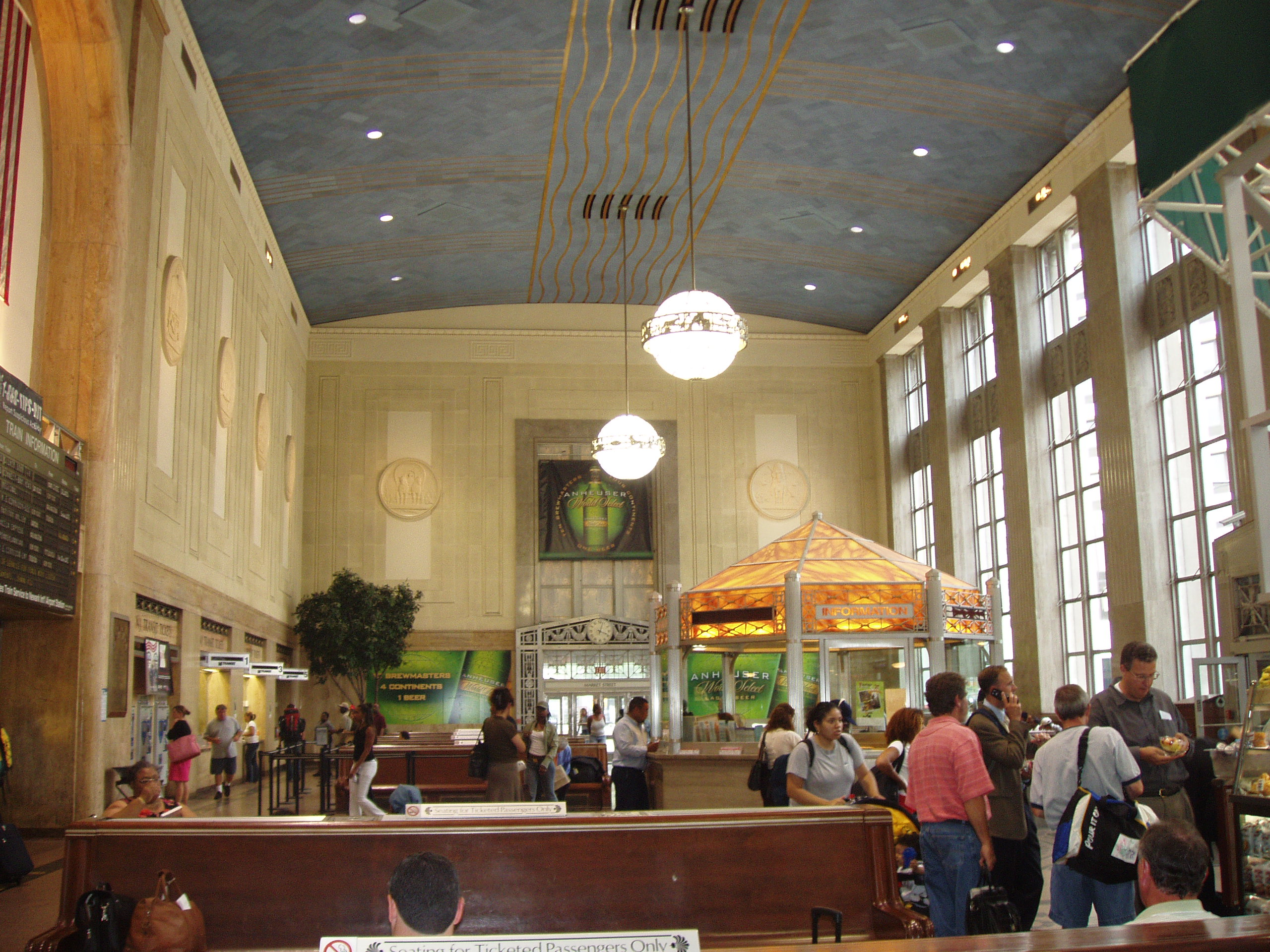 pic of interior of Newark Penn Station, taken by author I took this picture of the interior of Newark Penn Station on July 14th, 2004.